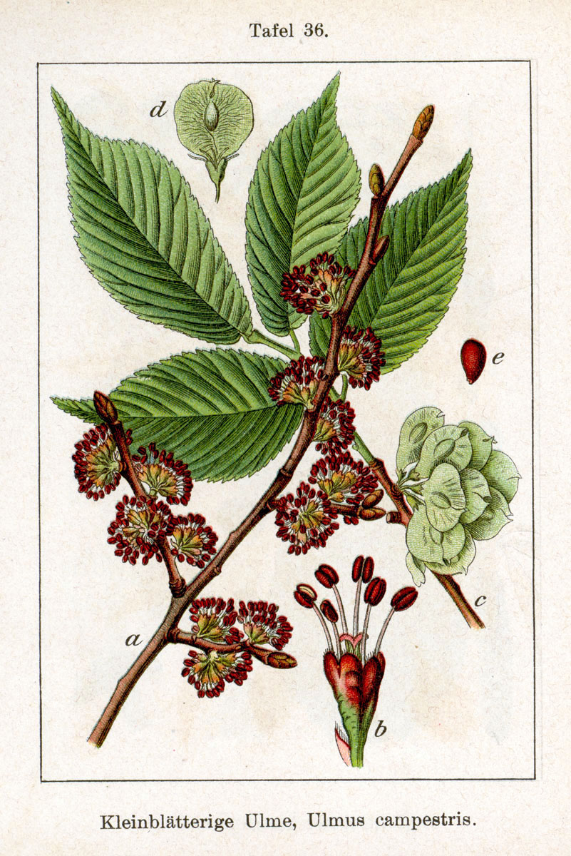 Ulmus minor subsp. minor, syn. Ulmus campestris auct. non L. Ulmus minor Mill., syn. Ulmus campestris L. Original Description Kleinblätterige Ulme, Ulmus campestris